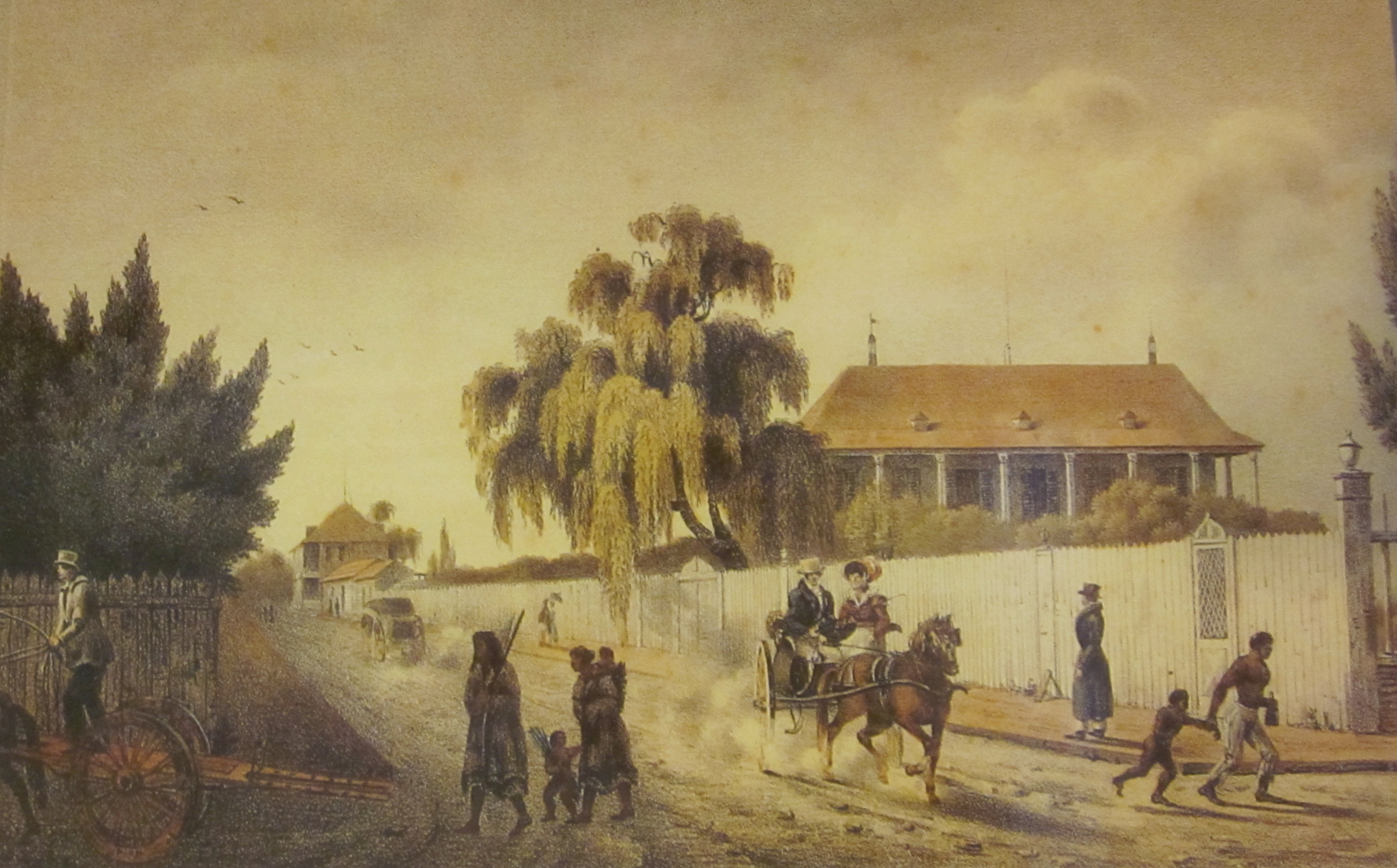 New Orleans, 1821: Painting of street scene, Faubourg Marigny